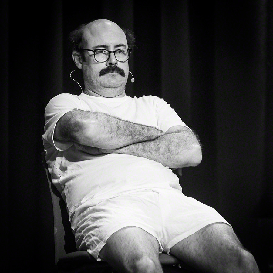 Sam Simmons performing 'Spaghetti for Breakfast' in January 2016. The Crap Comedy Festival takes place at Parkteateret in Oslo.